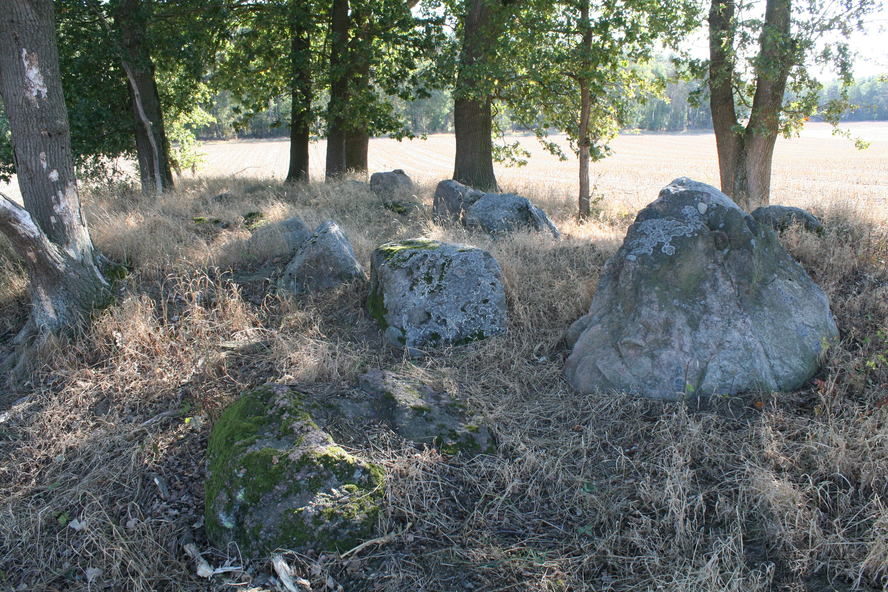 Megalithic tomb Diesdorf 2